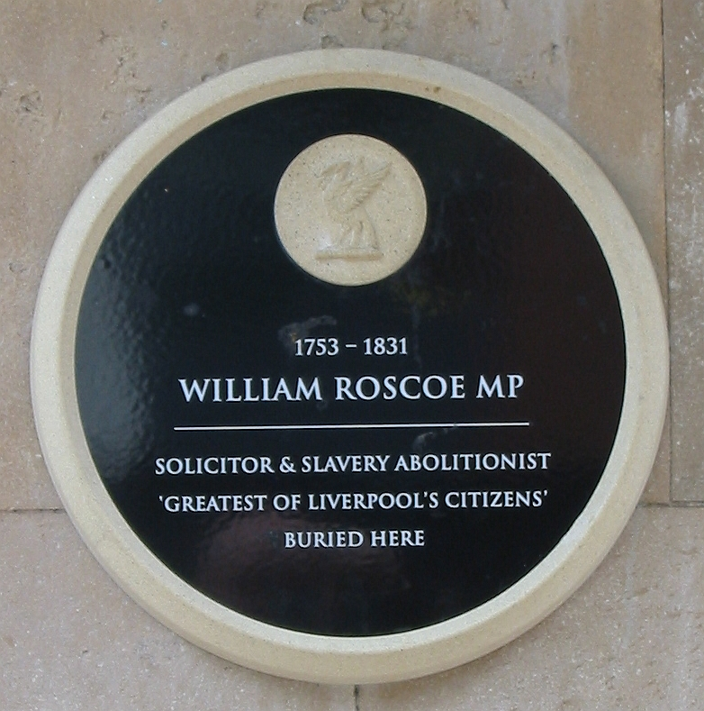 Liverpool